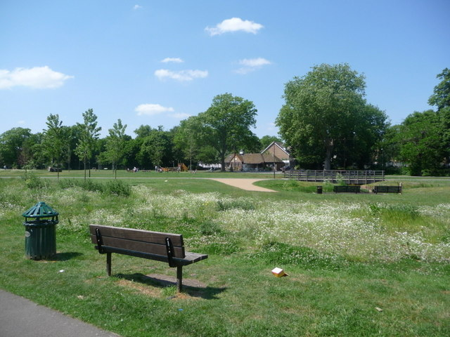 Lewisham: across Ladywell Fields Looking across the northern section of 1331445, with a footbridge crossing the Ravensbourne River to the right.